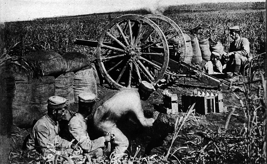 A Japanese Type 31 field gun of IJA 18th division during the siege of Tsingtao, 1914.